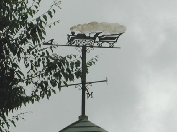 Higashi-Niitsu Station in Akiha-ku, Niigata-shi, Niigata Prefecture, Japan